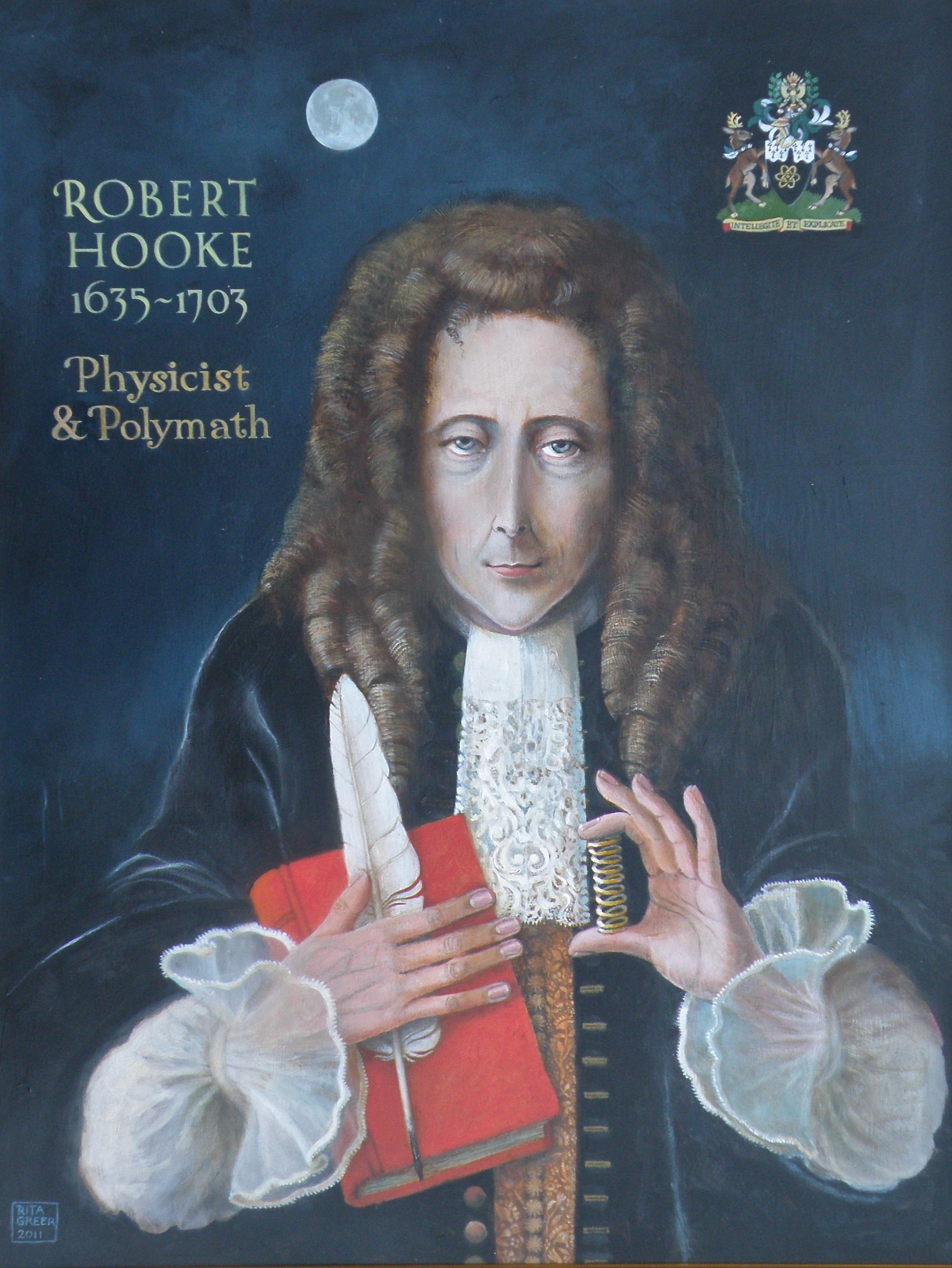 Memorial portrait of Robert Hooke, presented to the Institute of Physics, London. Shows Hooke with a spring, record book and quill. Top left is the IoP coat of arms. Wording is: ‘Robert Hooke 1635-1703 Physicist and Polymath’. Portrait hangs in the Hooke Room. Oil on board 2011.